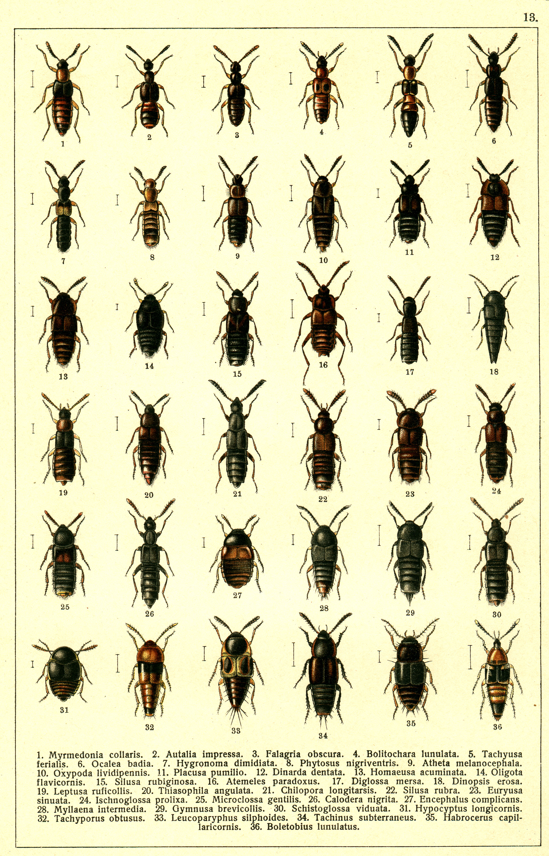 Illustration of monographs Georgiy Jacobson "Beetles Russia and Western Europe". Publisher: Devriena company. The first issue was released in 1905, the last - in 1915. Illustrations were mostly taken from the publication CG Calwers Kaeferbuch. Part of illustrations drawn O. Somina 1. Myrmedonia collaris 2. Autalia impressa 3. Falagria obscura 4. Bolitochara lunulata 5. Tachyusa ferialis 6. Ocalea badia 7. Hygronoma dimidiata 8. Phytosus nigriventris 9. Atheta melanocephala 10. Oxypoda lividipennis 11. Placusa pumilio 12. Dinarda dentata 13. Homaeusa acuminata 14. Oligota flavicornis 15. Silusa rubiginosa 16. Atemeles paradoxus 17. Diglossa mersa 18. Dinopsis erosa 19. Leptusa ruficollis 20. Thiasophila angulata 21. Chilopora longitarsis 22. Silusa rubra 23. Euryusa sinuata 24. Ischnoglossa prolixa 25. Microclossa gentilis 26. Calodera nigrita 27. Encephalus complicans 28. Myllaena intermedia 29. Gymnusa brevicollis 30. Schistoglossa viduata 31. Hypocyptus longicornis 32. Tachyporus obtusus 33. Leucoparyphus silphoides 34. Tachinus subterraneus 35. Habrocerus capillaricornis 36. Boletobius lunulatus